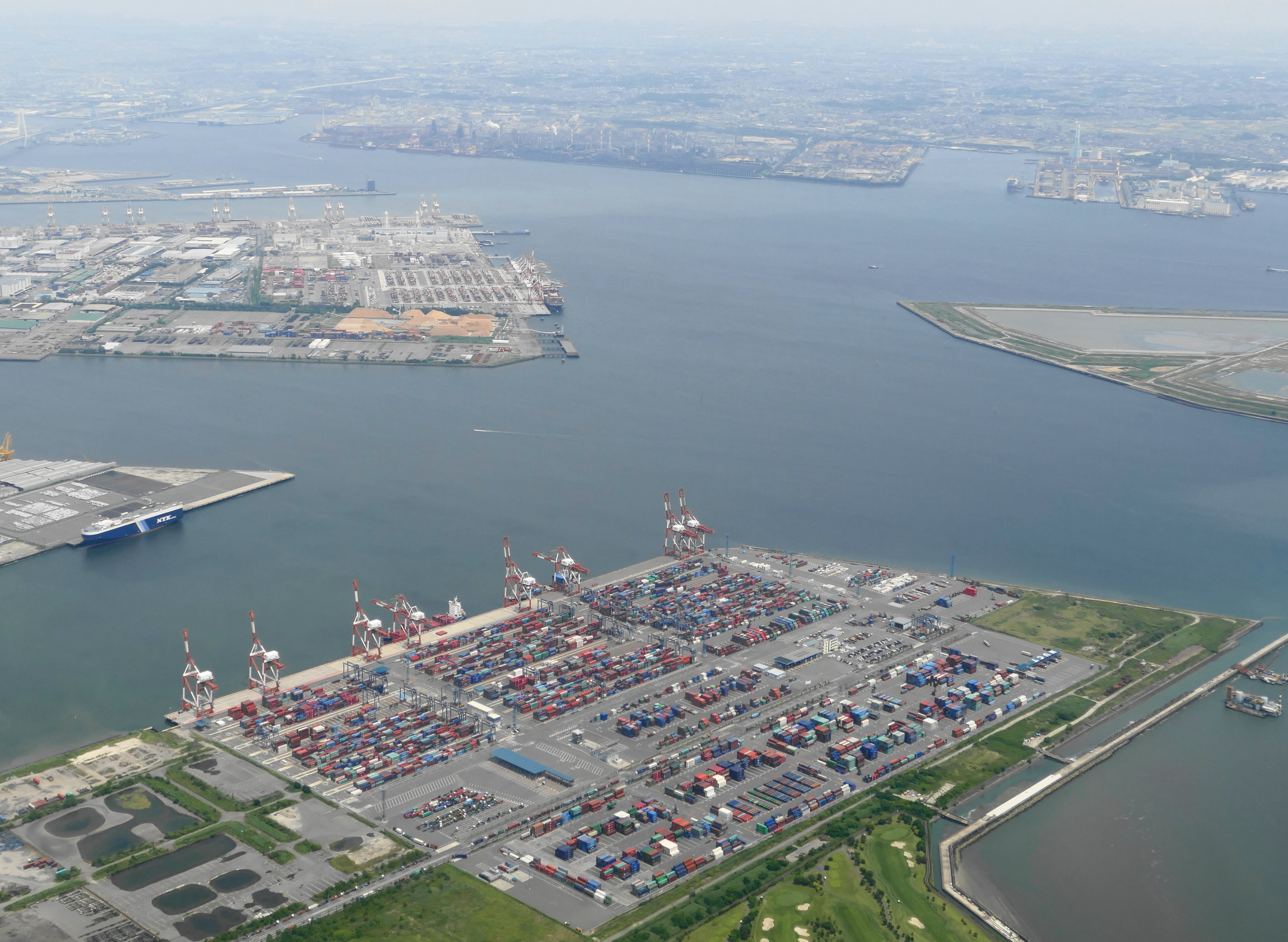 Tobhisima wharf and Nabeta wharf as seen from the sky,Aichi prefecture, Japan